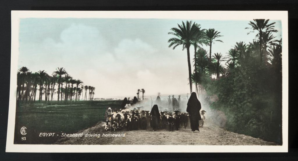 Colored photo of a flock of sheep on a dirt road